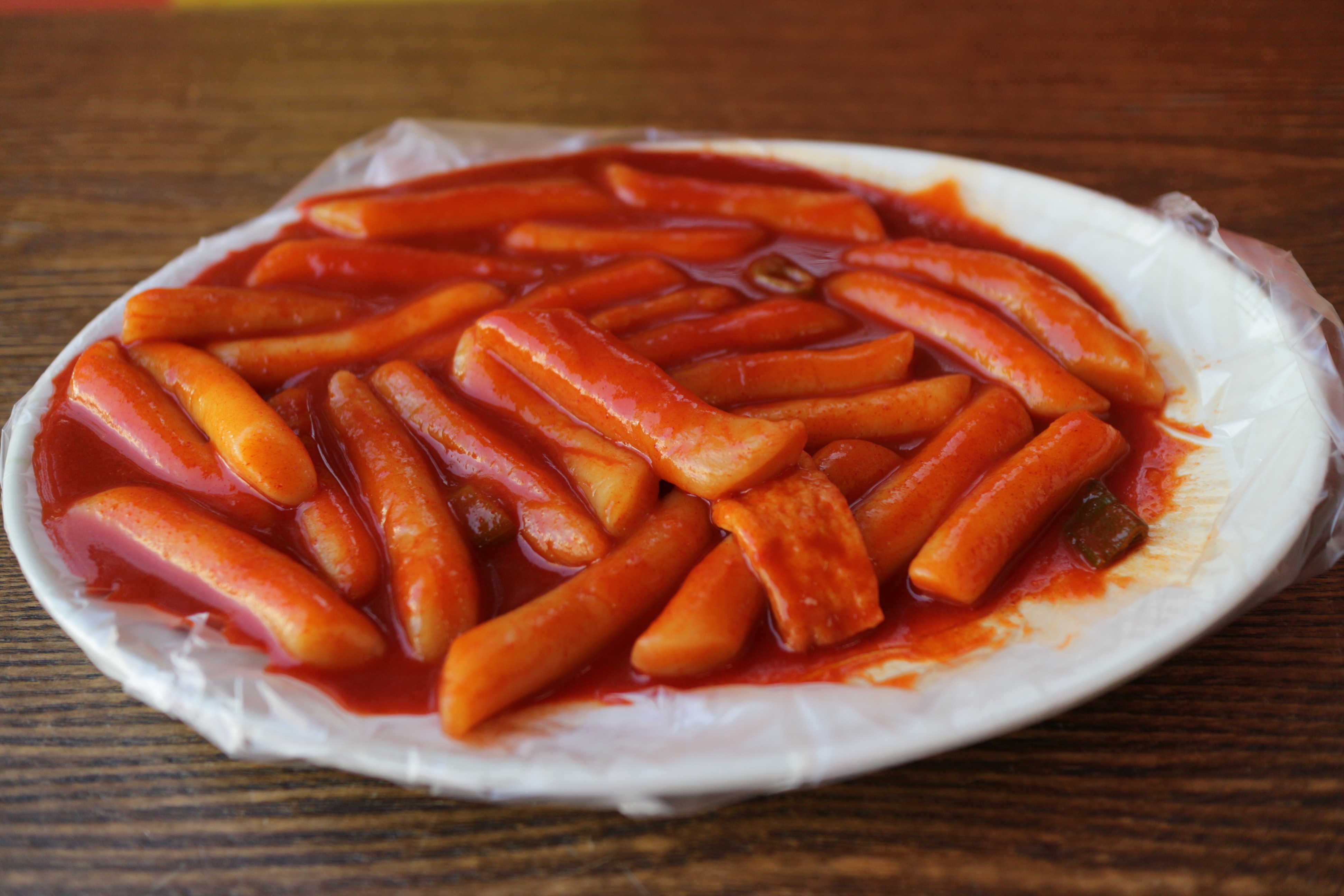 Tteok-bokki (stir-fried rice cakes)